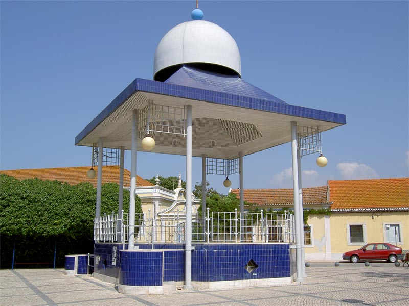 Coreto do Samouco.